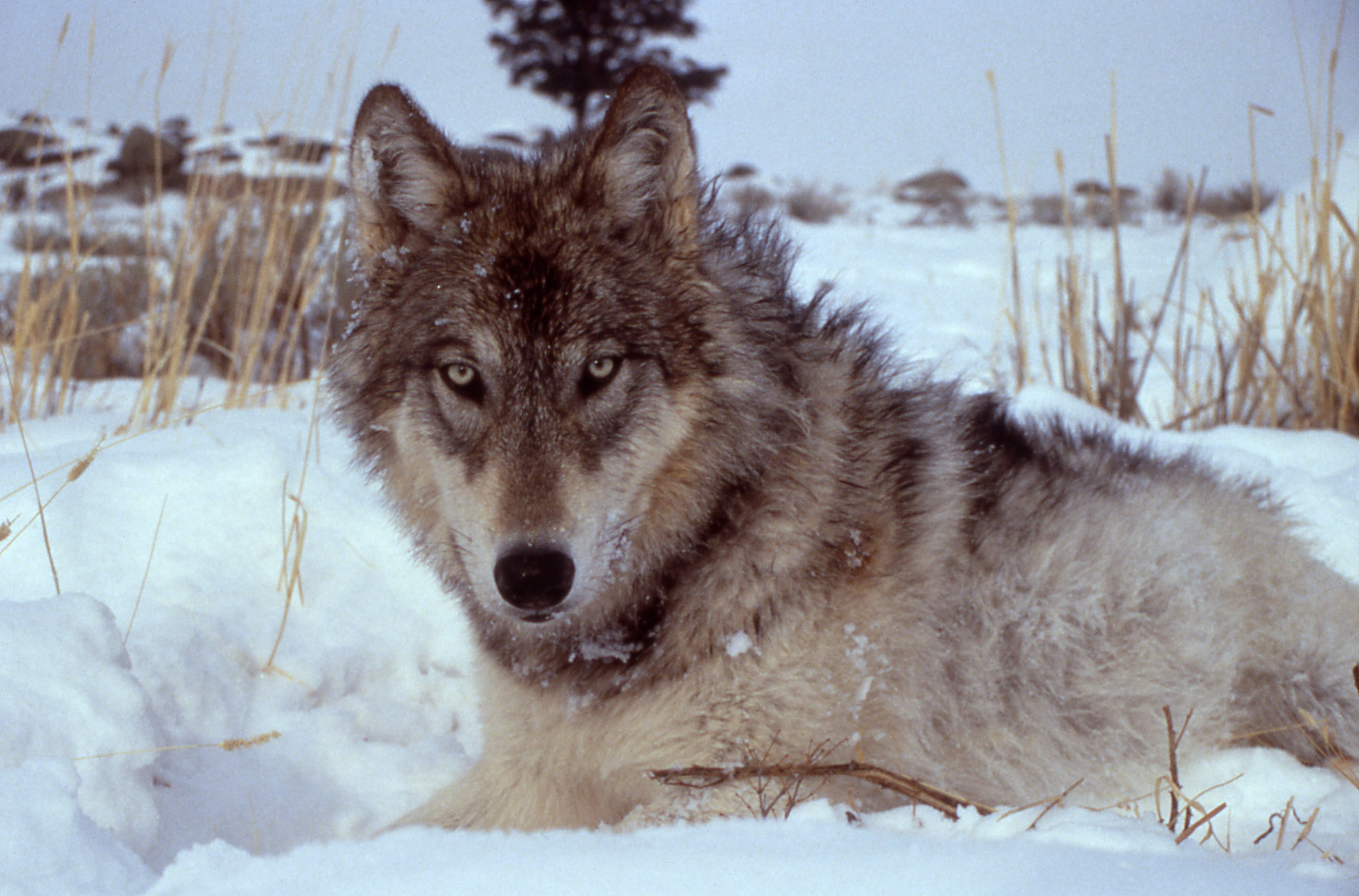 Collared wolf from the Druid pack, Yellowstone National Park